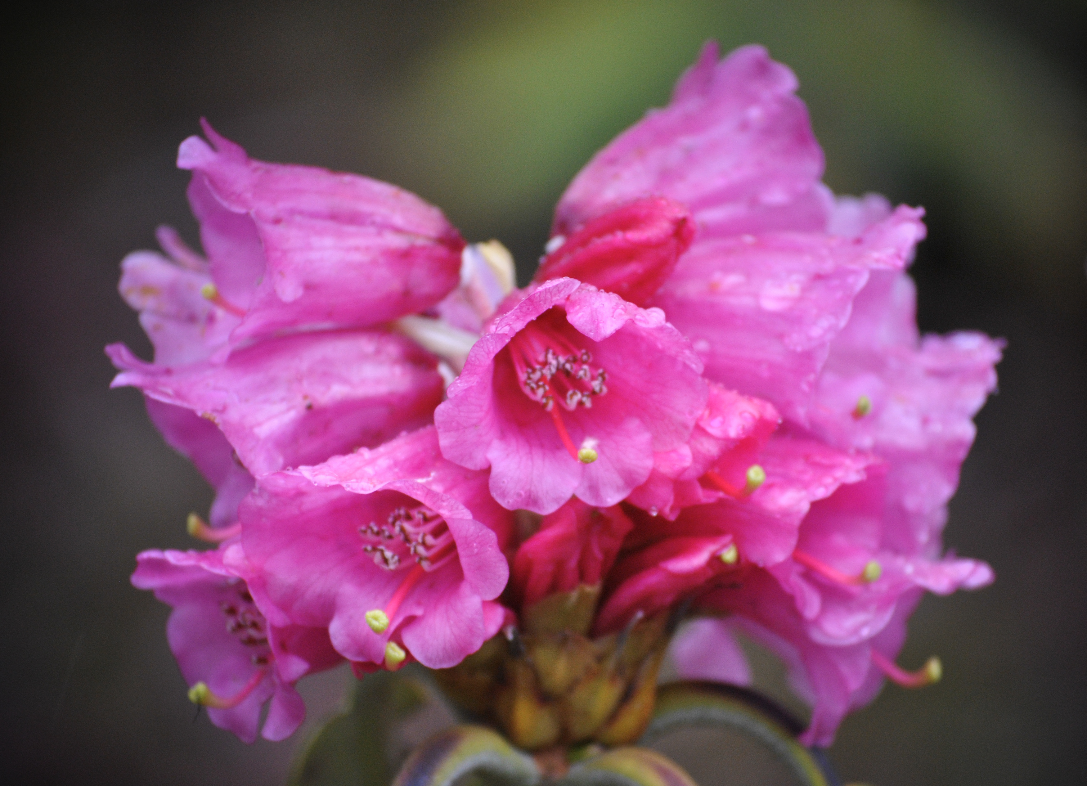 Rhododendron, North Sikkim, Yumthang Valley